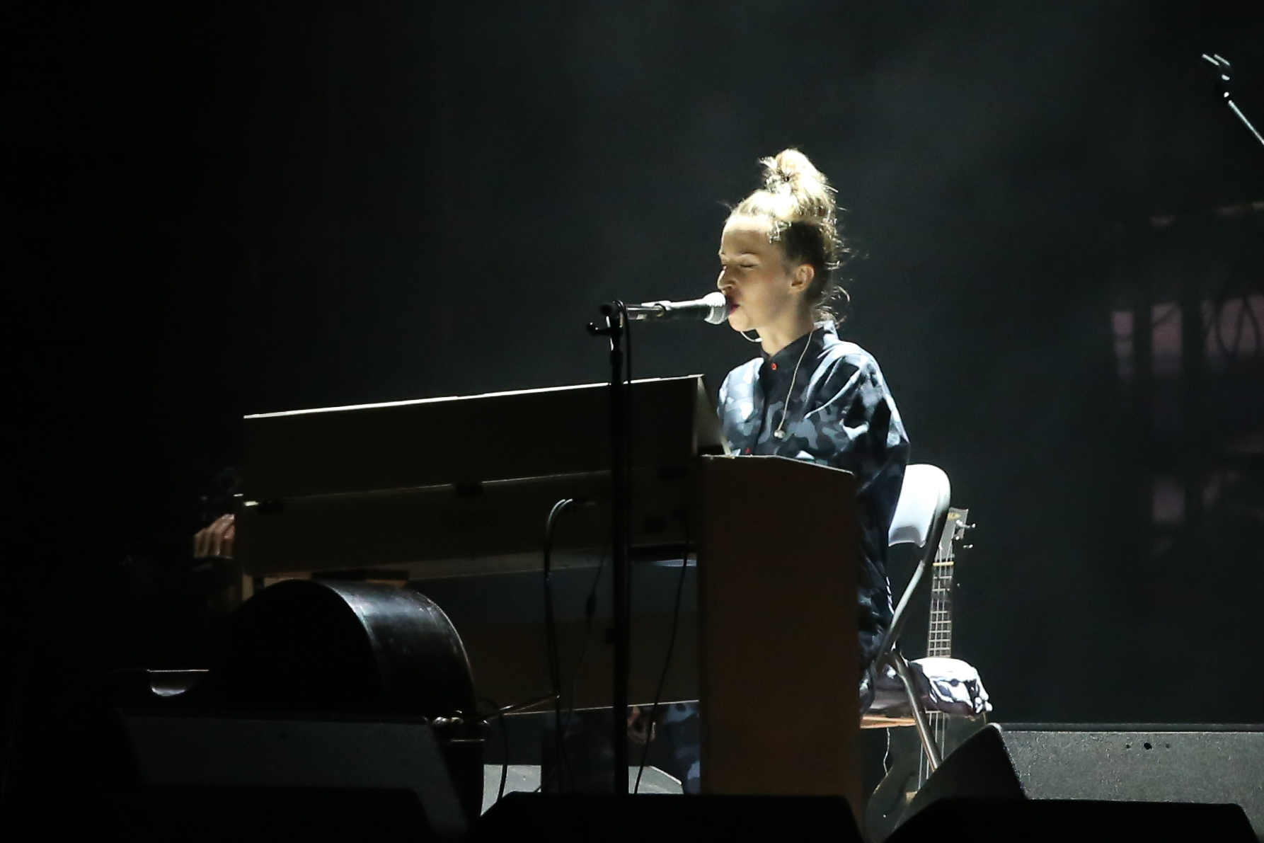 Przystanek Woodstock in 2017.